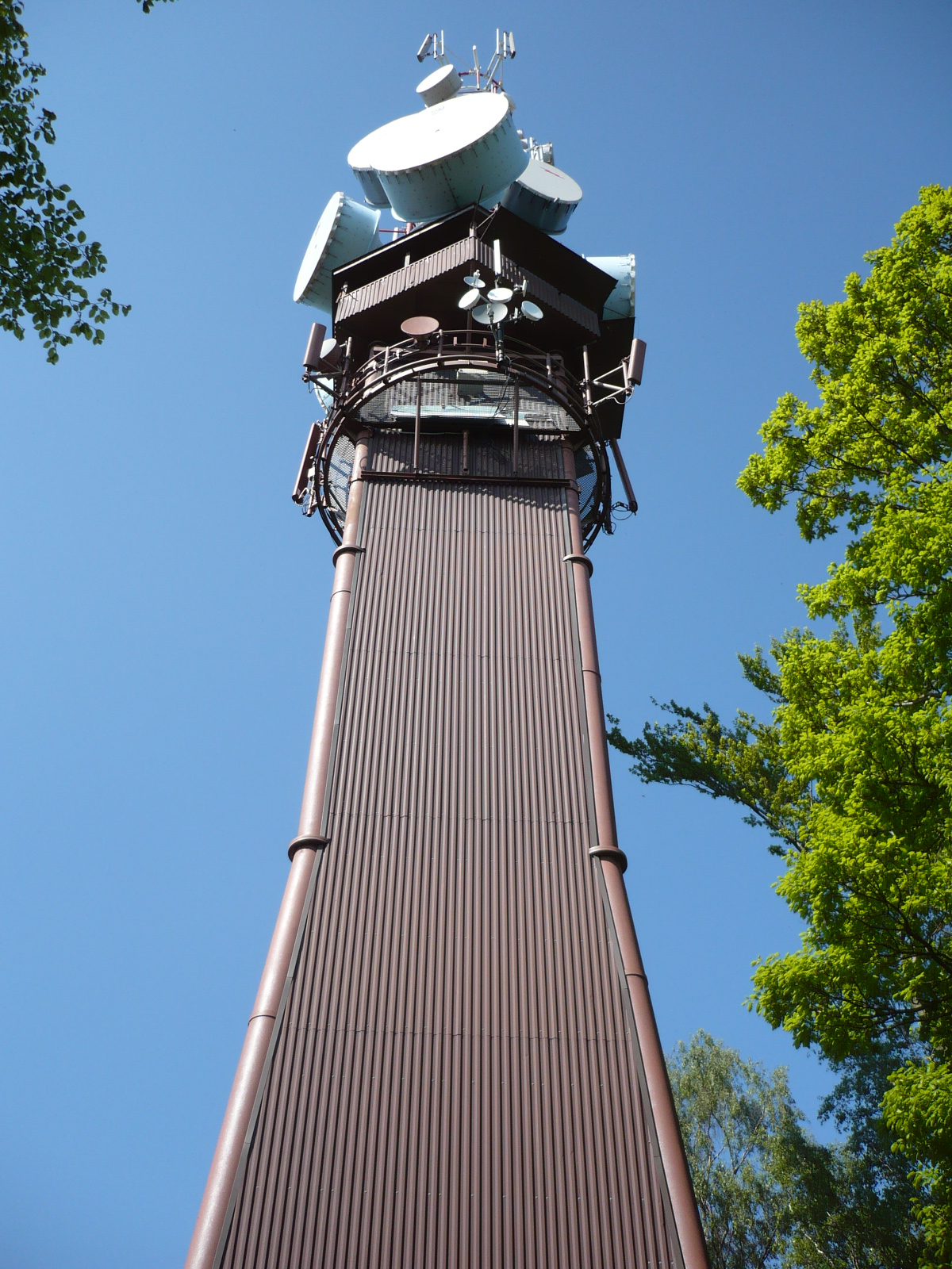 Observation Tower Vratenska hora – near Mseno, middle Czech